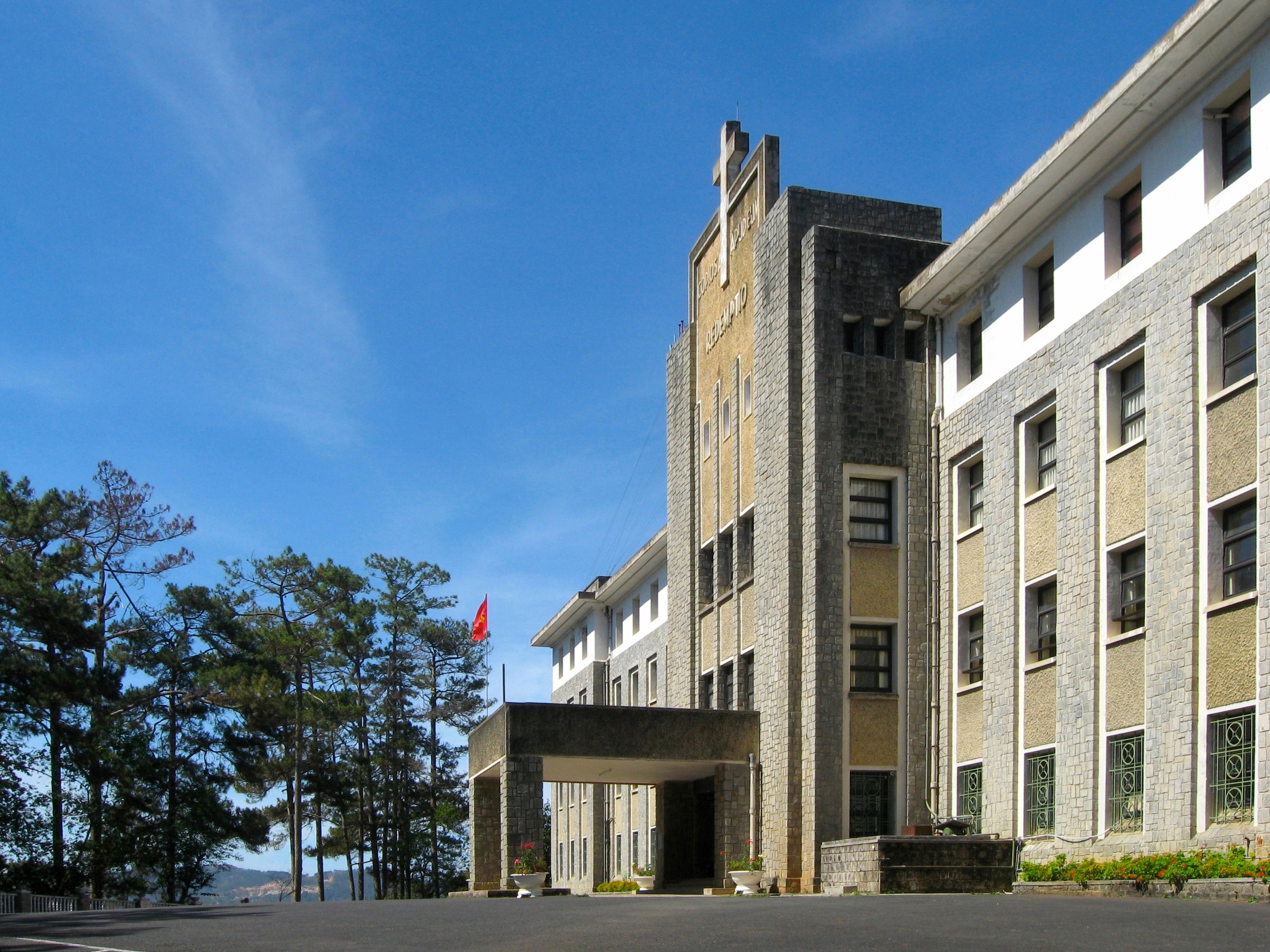 Tay Nguyen Institute of Biology